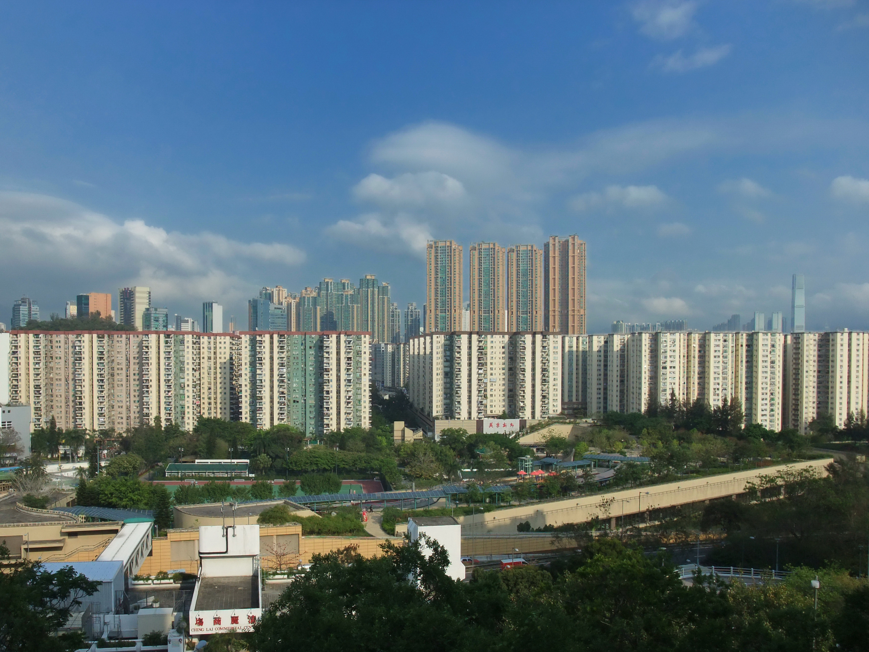 Mei Foo Sun Chuen, Lai Chi Kok, Kowloon, Hong Kong.